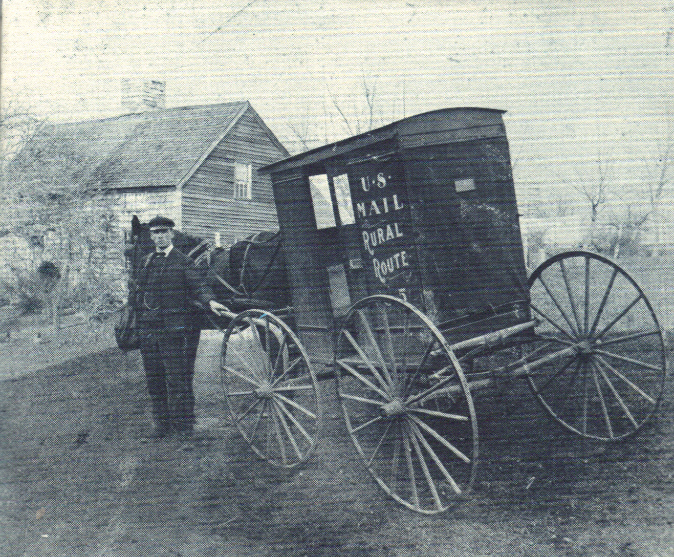 Picture of Ephraim Hawley House taken before 1881